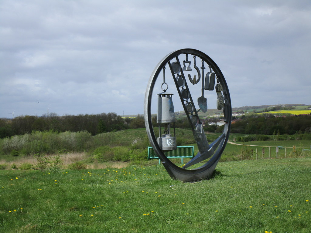 Collier's tools sculpture overlooking the bottom half of Phoenix Park, Thurnscoe.